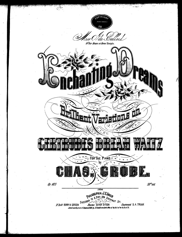 Source: [1] Title page of US Edition of Gertrude's Dream Waltz (with variations) 1854